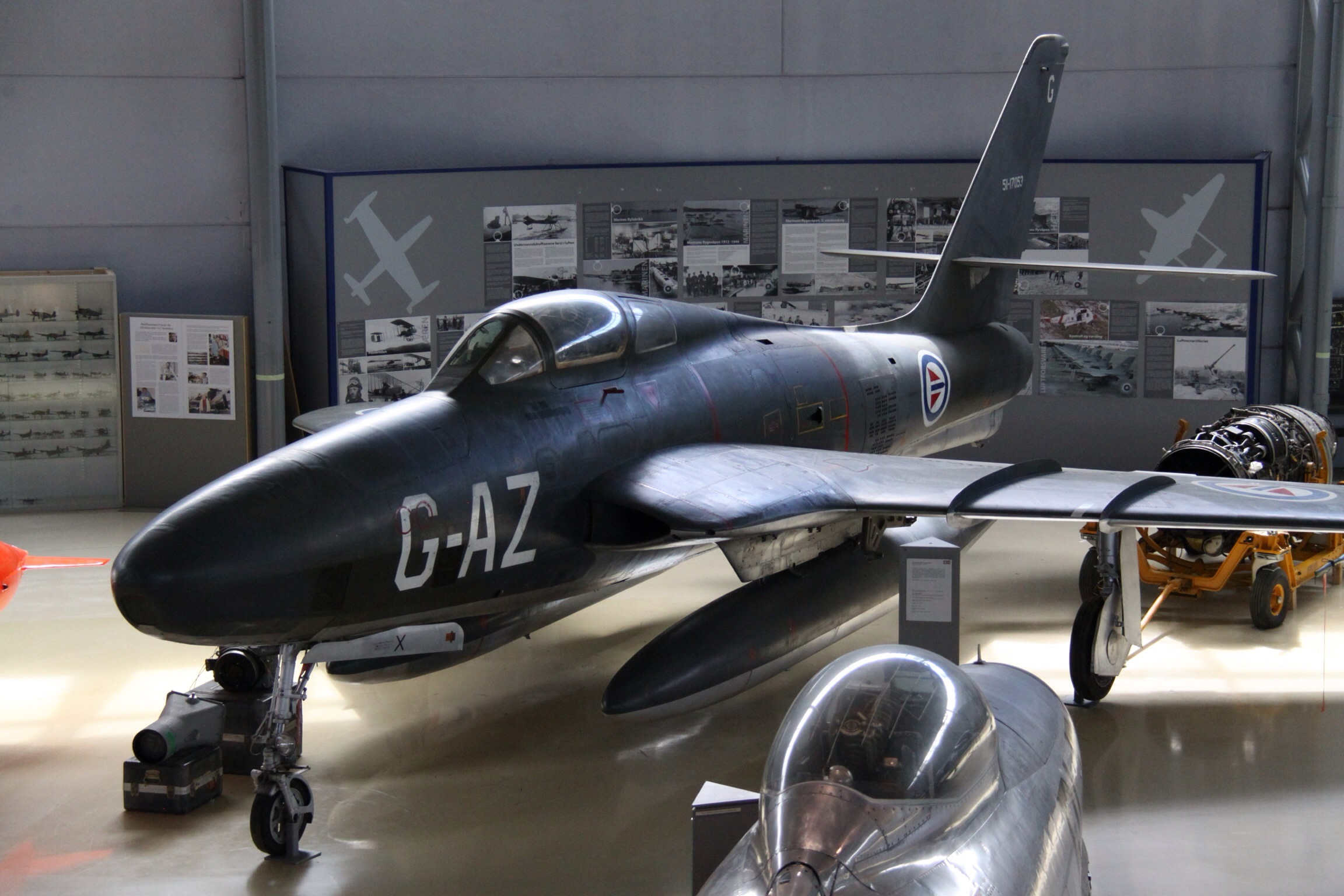 At Oslo Gardermoen